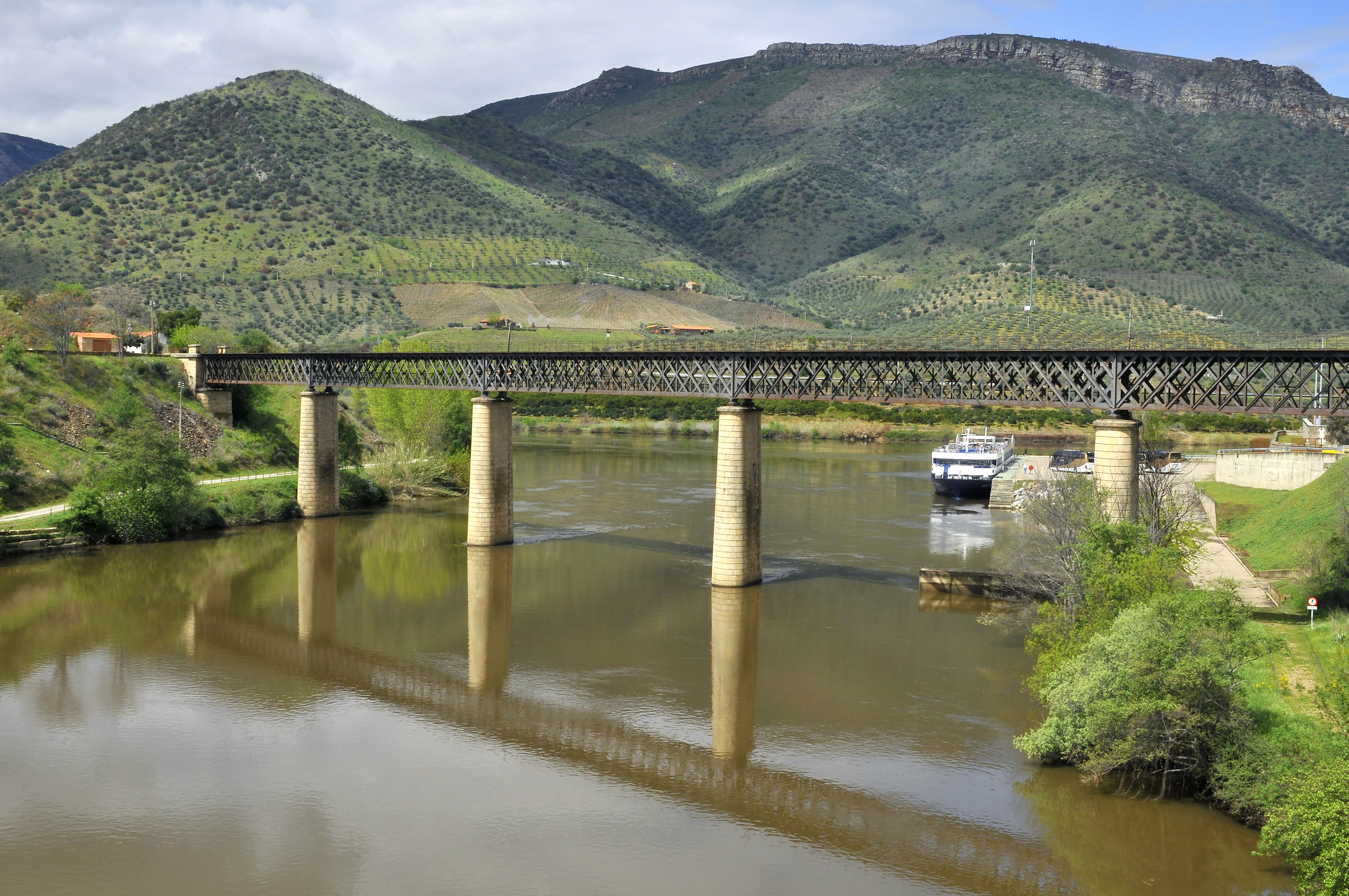 International bridge for the former railway [abandoned in 1985] over Águeda River, shortly before its mouth in Duero River; behind, a dock of the tourist boats that goes along the Arribes del Duero Natural Park. Barca d'Alva, Portugal / La Fregeneda, Spain